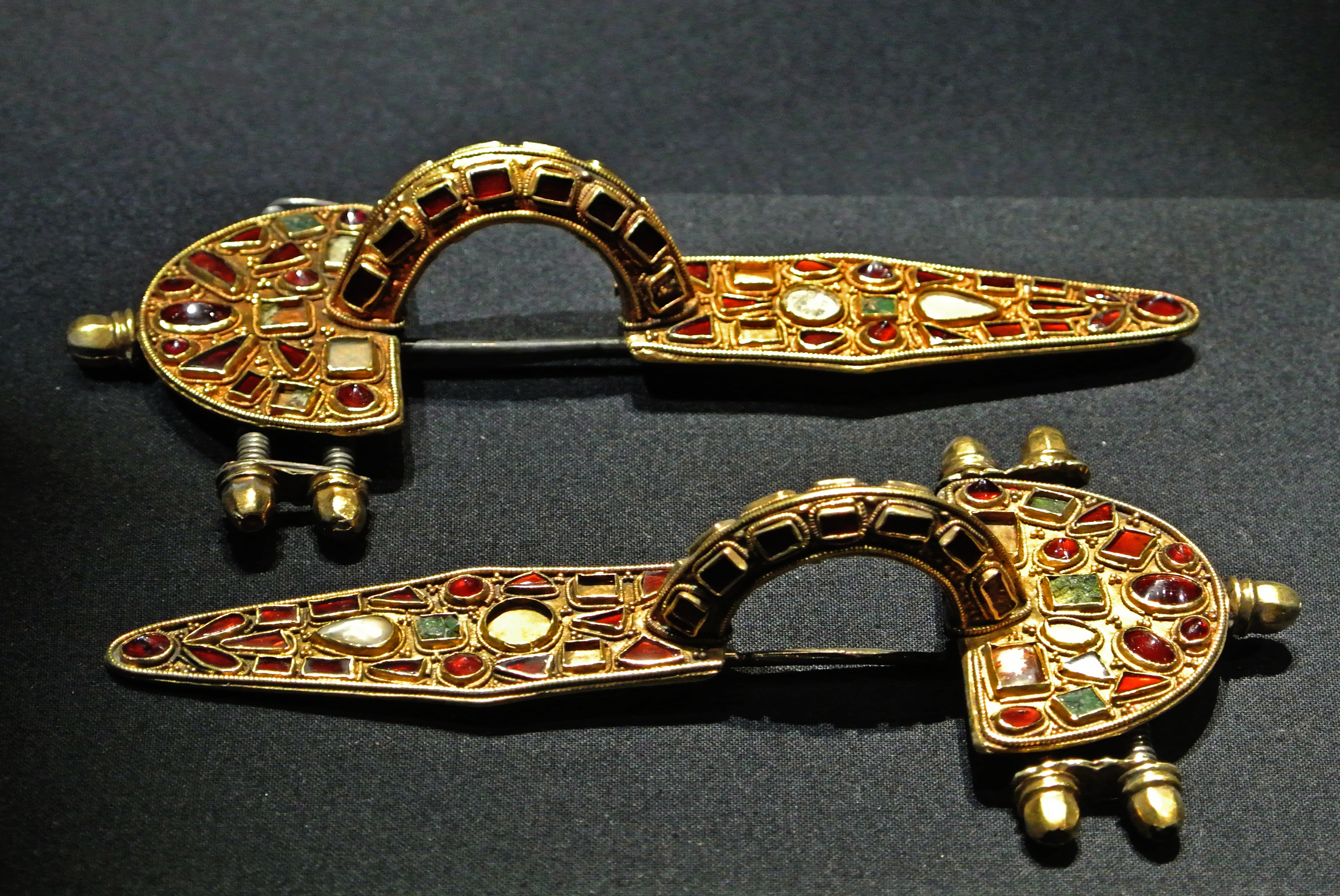 Pair of showy fibulae